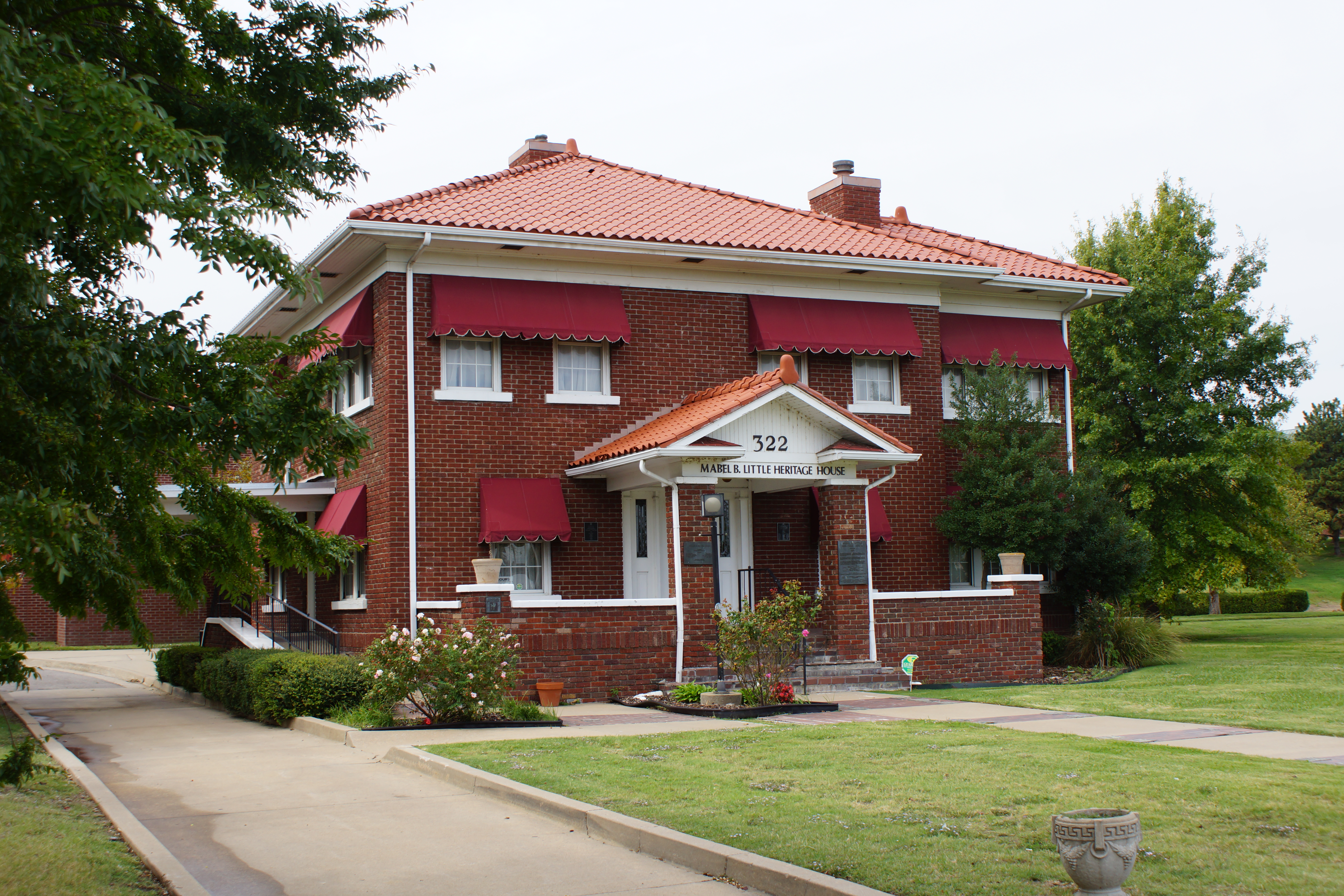 Taken in the Greenwood District of Tulsa, Oklahoma.